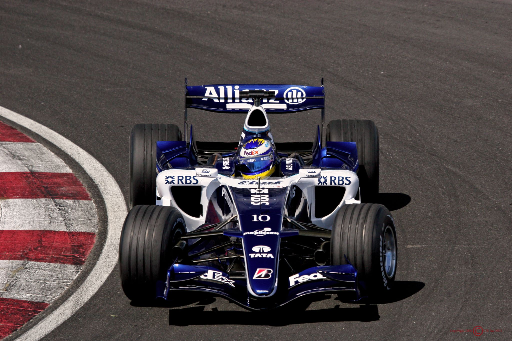 Nico Rosberg driving for Williams at the 2006 Canadian Grand Prix.